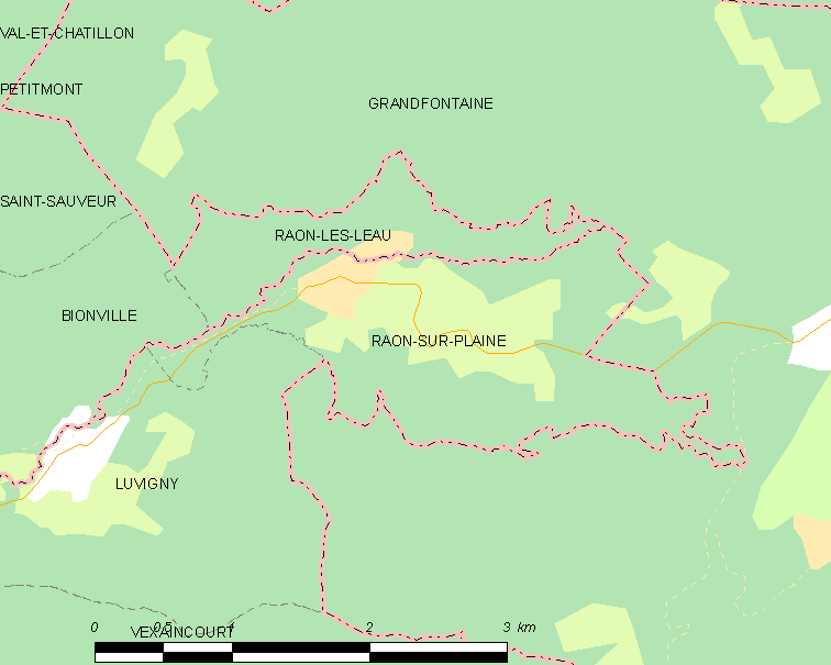 Map of French municipality Raon-sur-Plaine